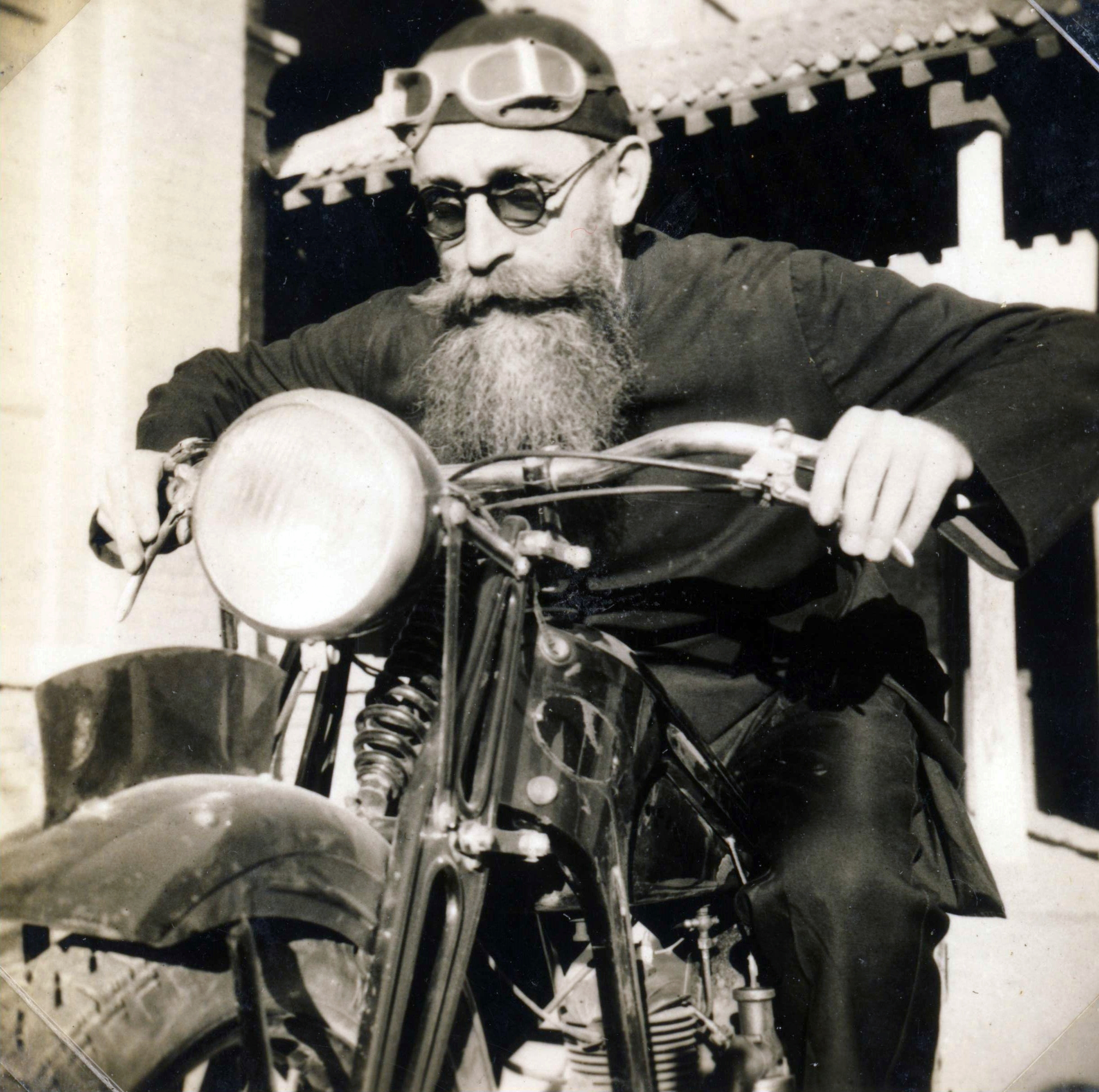 Location: China Tags: motorcycle, Asahi-brand, Japanese brand, missionary